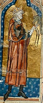 Stephen of England . From MS British Library Cotton Vitellius A. xiii, f.4v